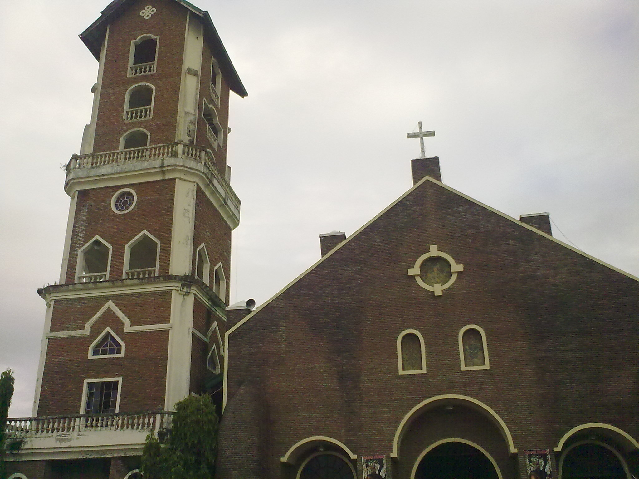 Front facade of the Basilica of Our Lady of Piat in Piat, Cagayan. Photo was taken on October 4, 2011.